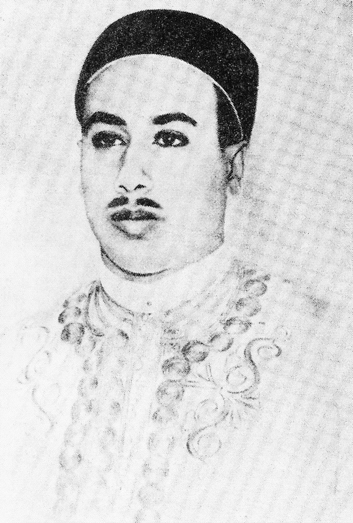 Crown Prince Hassan Er Reda of the United Kingdom of Libya